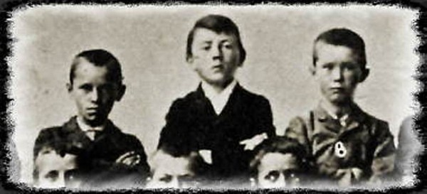 young Adolf Hitler with schoolmates 1900